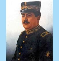 General Marcelino Murrieta Murrieta